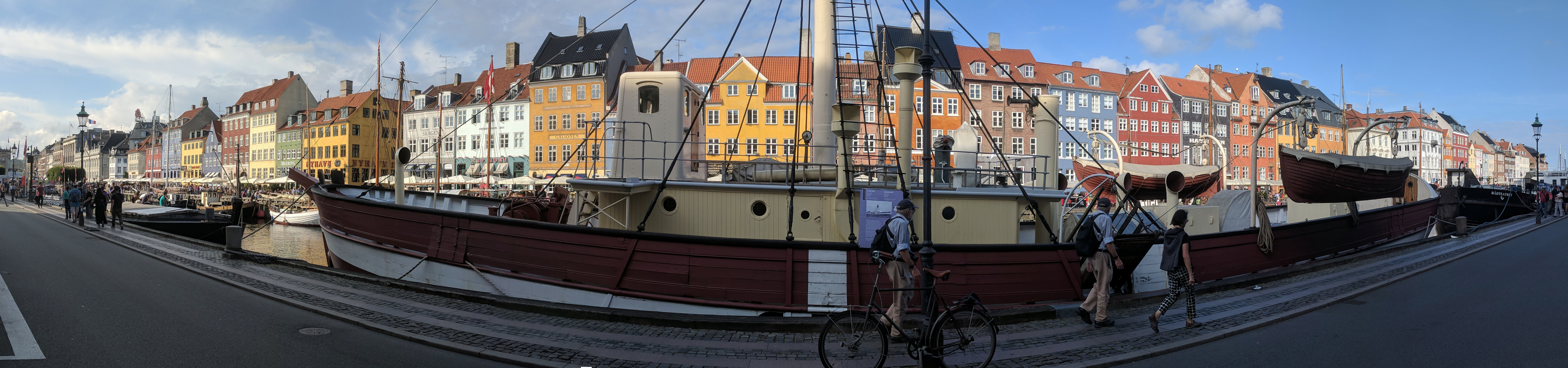 Panorama looking across Nyhavn (the new harbor), Copenhagen, from south side to north